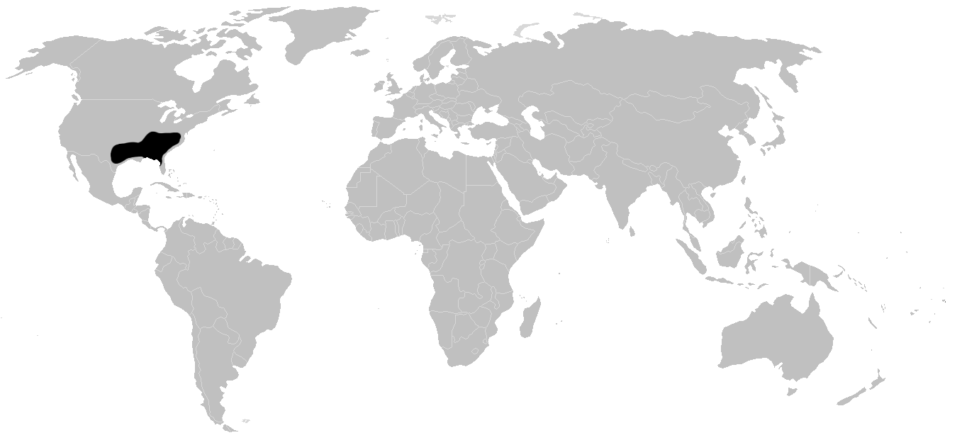 World distribution of the spider genus Myrmekiaphila, after data from Bond & Platnick, 2007.